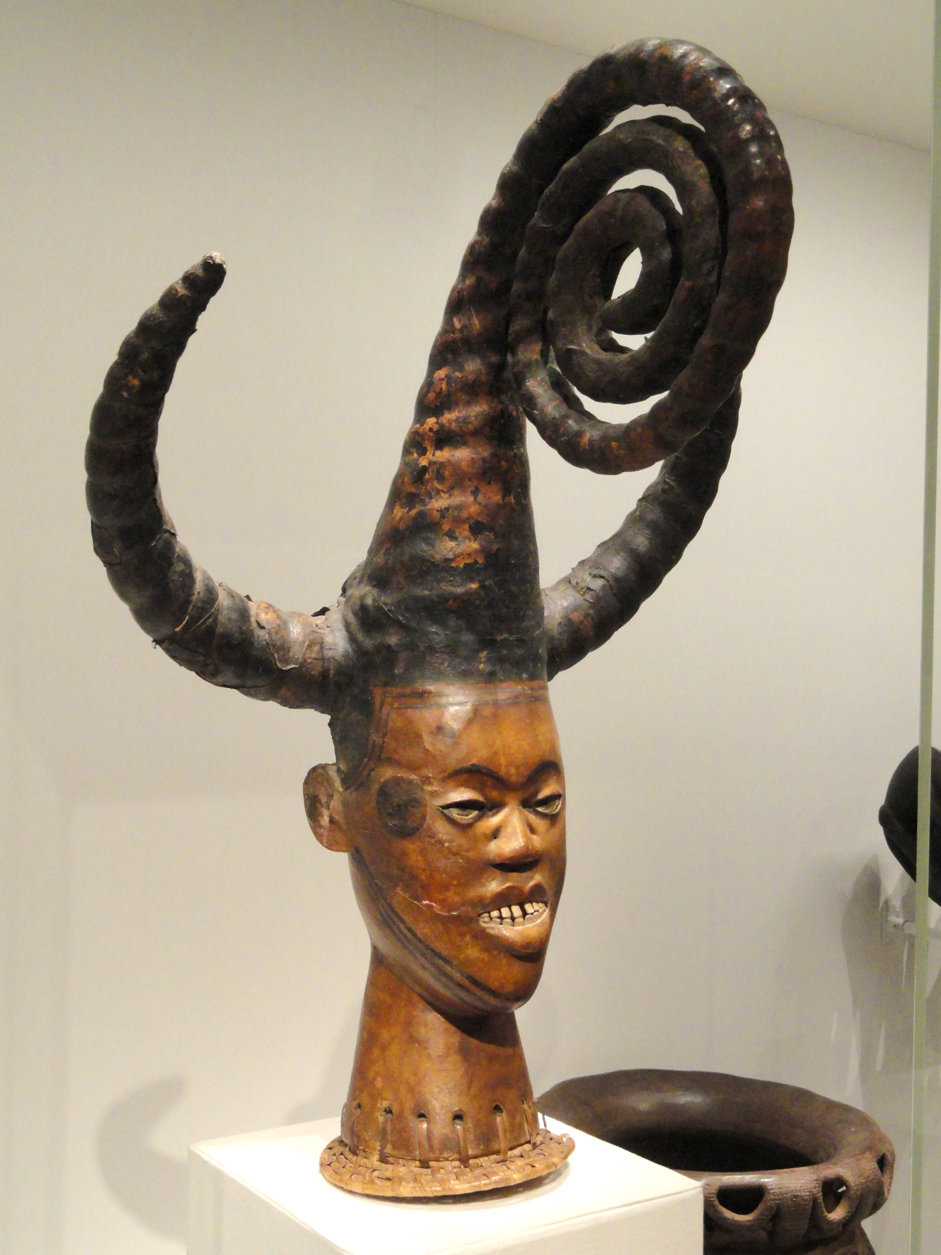 Exhibit in the Cleveland Museum of Art, Cleveland, Ohio, USA. This artwork is old enough so that it is in the public domain.